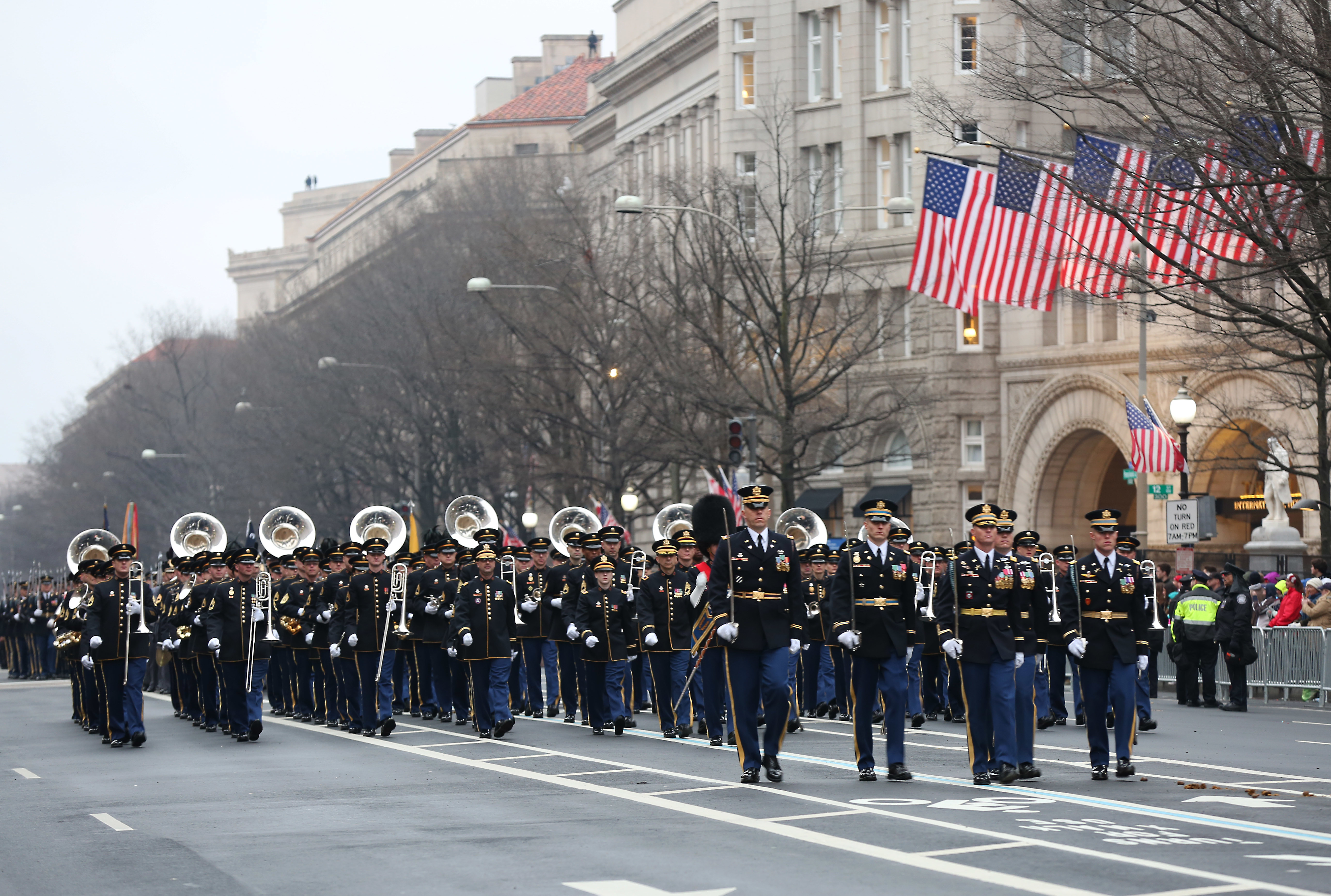 U.S. Soldiers march by Freedom Plaza along Pennsylvania Avenue, during the 58th Presidential Inauguration, Washington, D.C., Jan. 20, 2017. More than 5,000 military members from across all branches of the armed forces of the United States, including Reserve and National Guard components, provided ceremonial support and Defense Support of Civil Authorities during the inaugural period. (DoD photo by U.S. Army Sgt. Kalie Jones) Unit: Joint Task Force - National Capital Region 58th Presidential Inauguration DVIDS Tags: USCG; USMC; POTUS; USN; USAF; USA; Parade; Washington D.C.; JTF-NCR; Inauguration2017; President Donald J. Trump